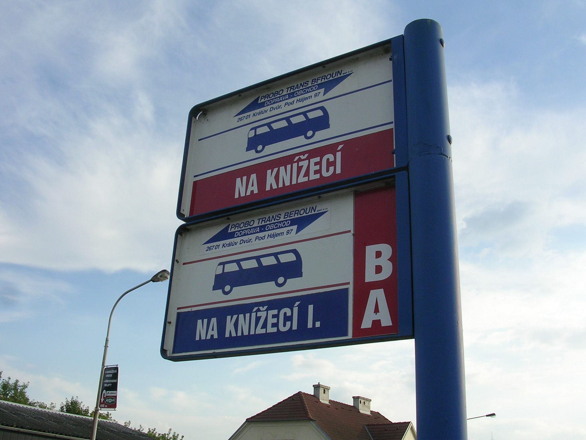 Králův Dvůr, Beroun District, Central Bohemian Region, the Czech Republic. The bus stop of Na Knížecí. - Google Maps - Google Earth